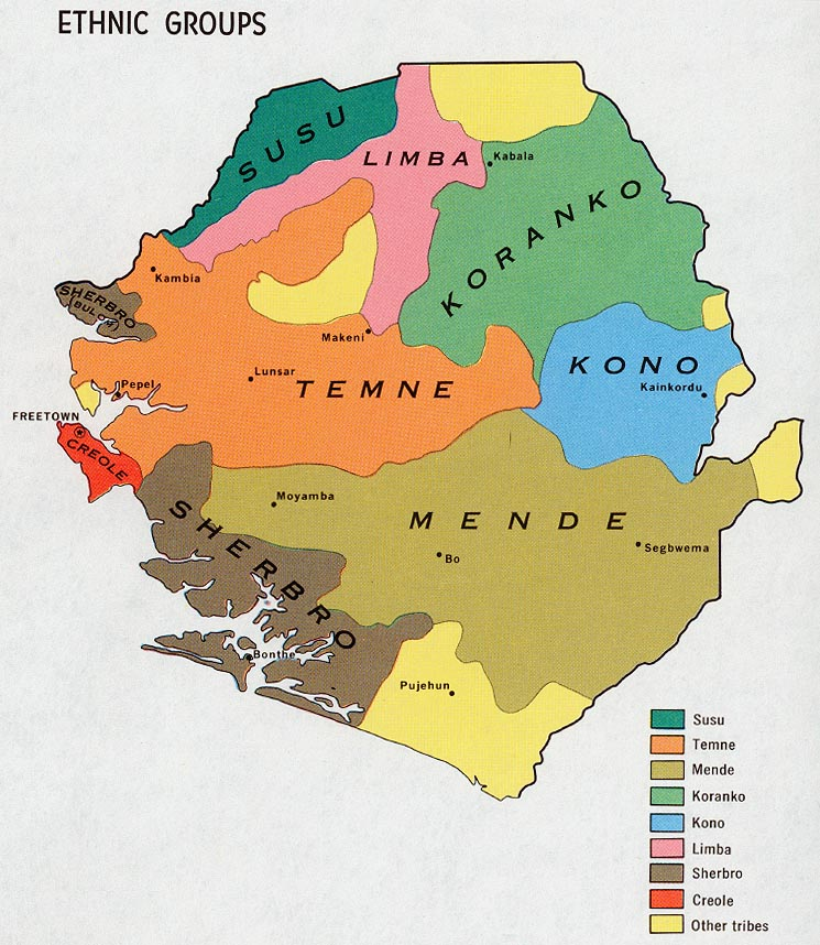 Ethnic groups in Sierra Leone.